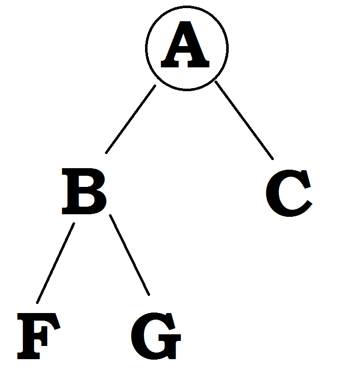 A diagram illustrating the operation of the concept of representation in the South African law of succession.